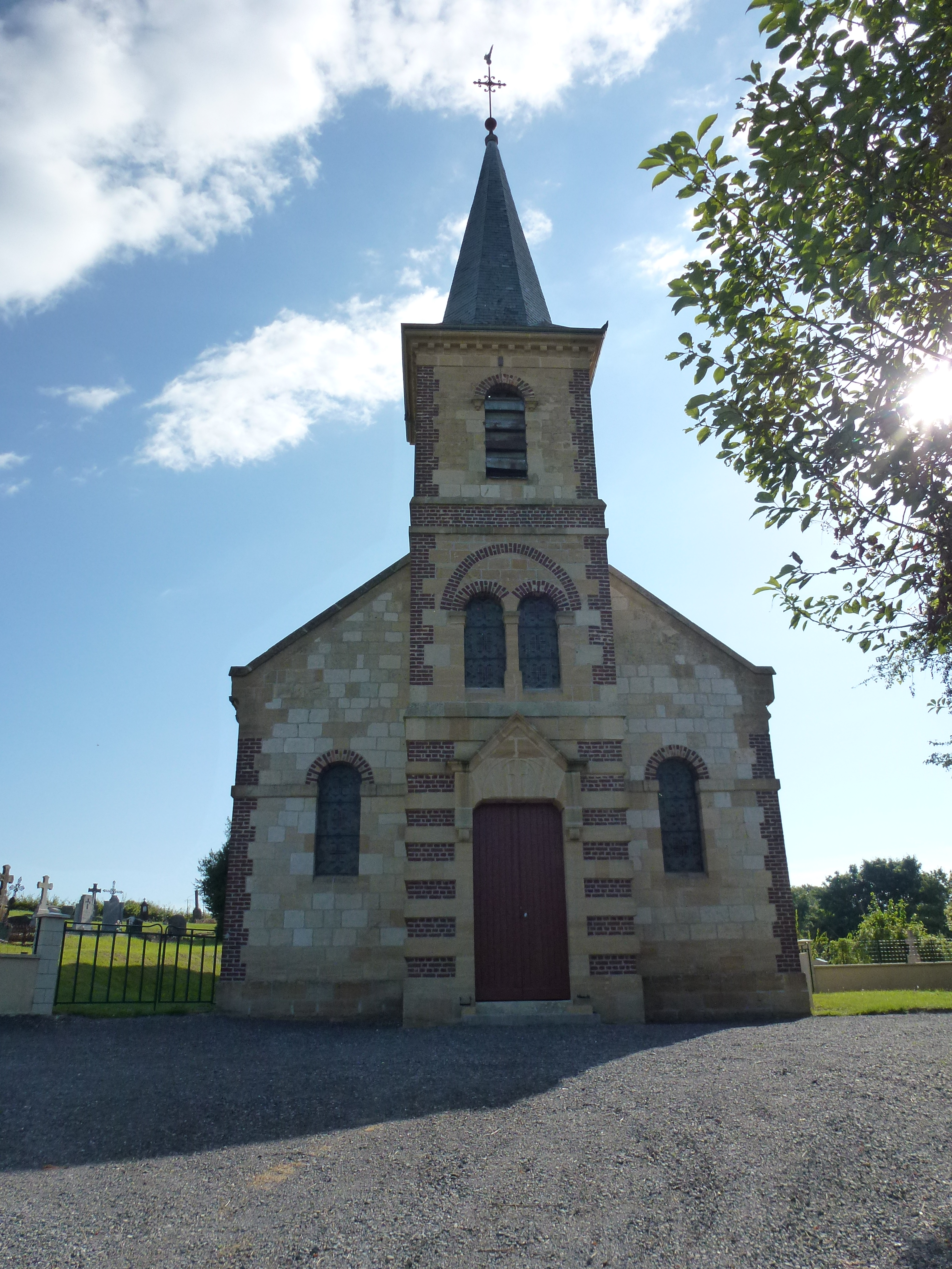 Marquigny (Ardennes) église, façade